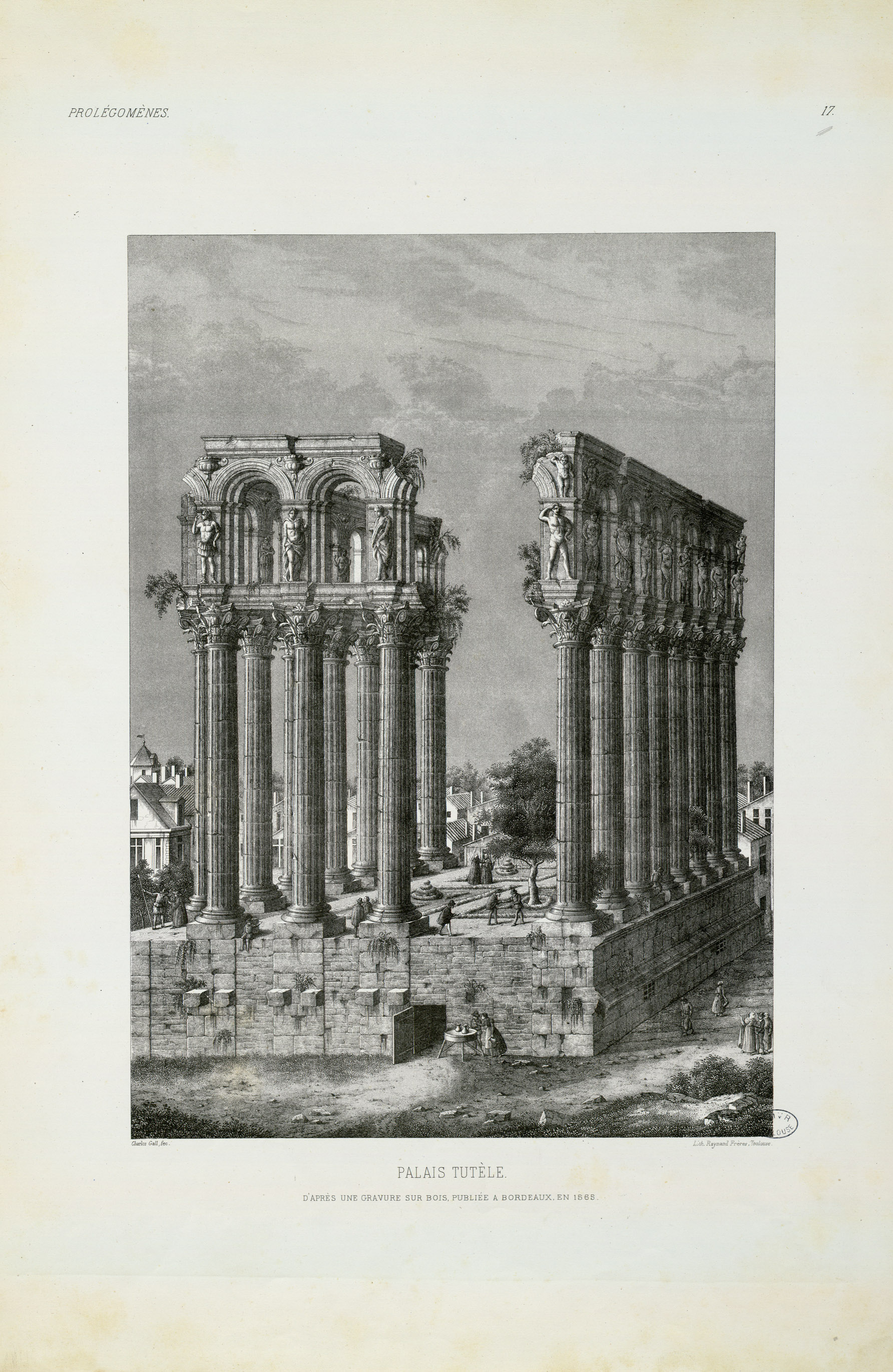 Gallo-roman building of the IIIrd century named Piliers de Tutelle in Bordeaux (France). Engraving of the beginning of XIXth century, copy of an older one of 1565.